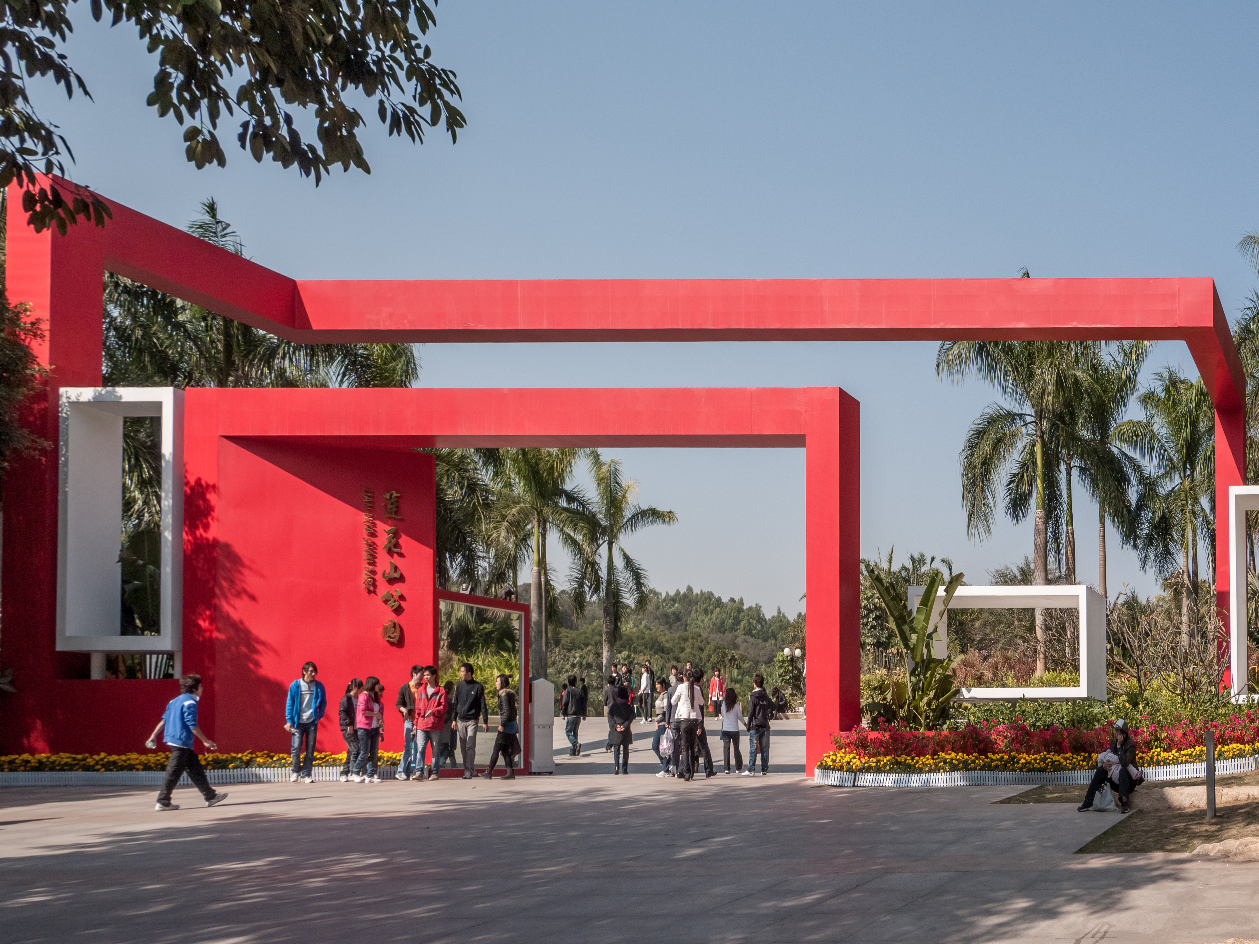 Shenzhen Lotus Hill Park entrance